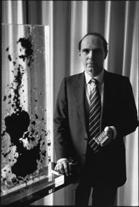 Bruno Lussato